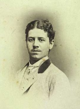 Francis James Zachariae (1852-1936), Danish merchant, industrialist, and publisher